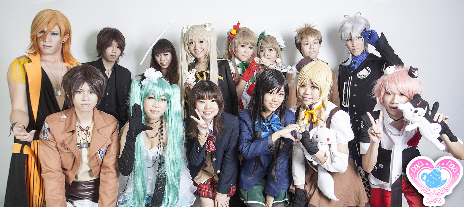 EOY 2013 Doki Doki Hearts Cafe